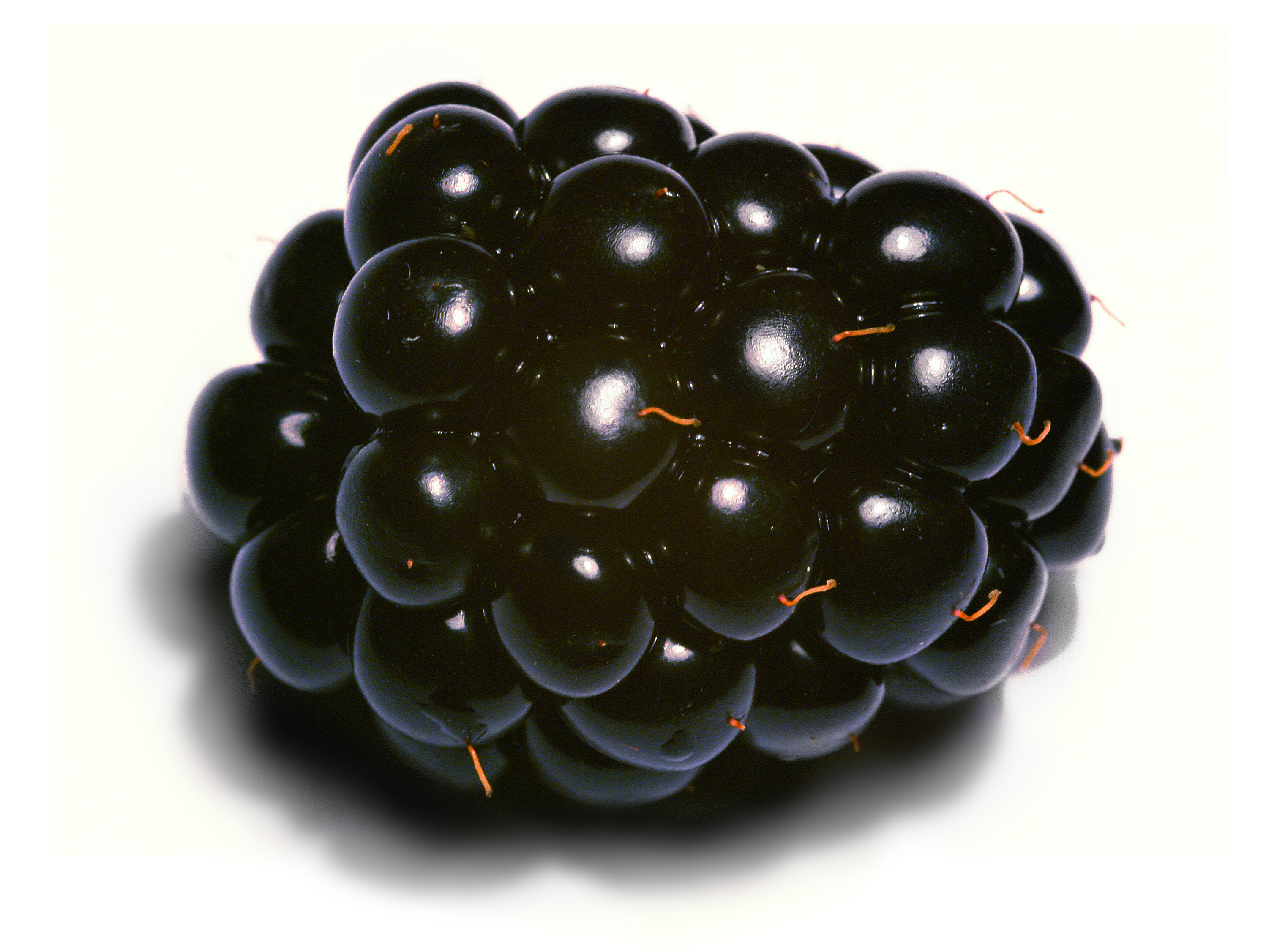 close-up of blackberry-fruits